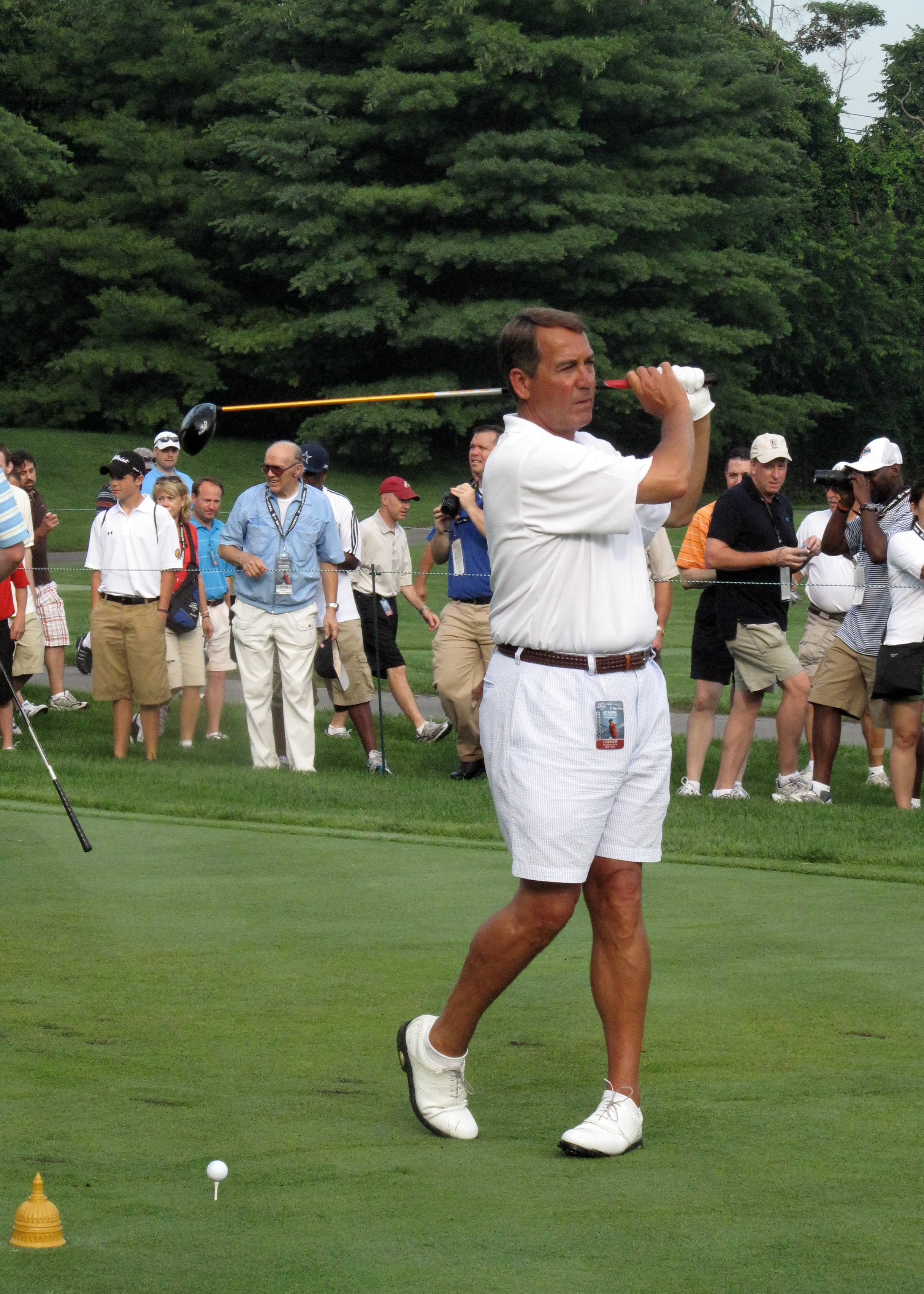 An image of John Boehner at the AT&T National golf tournament, July 2009.